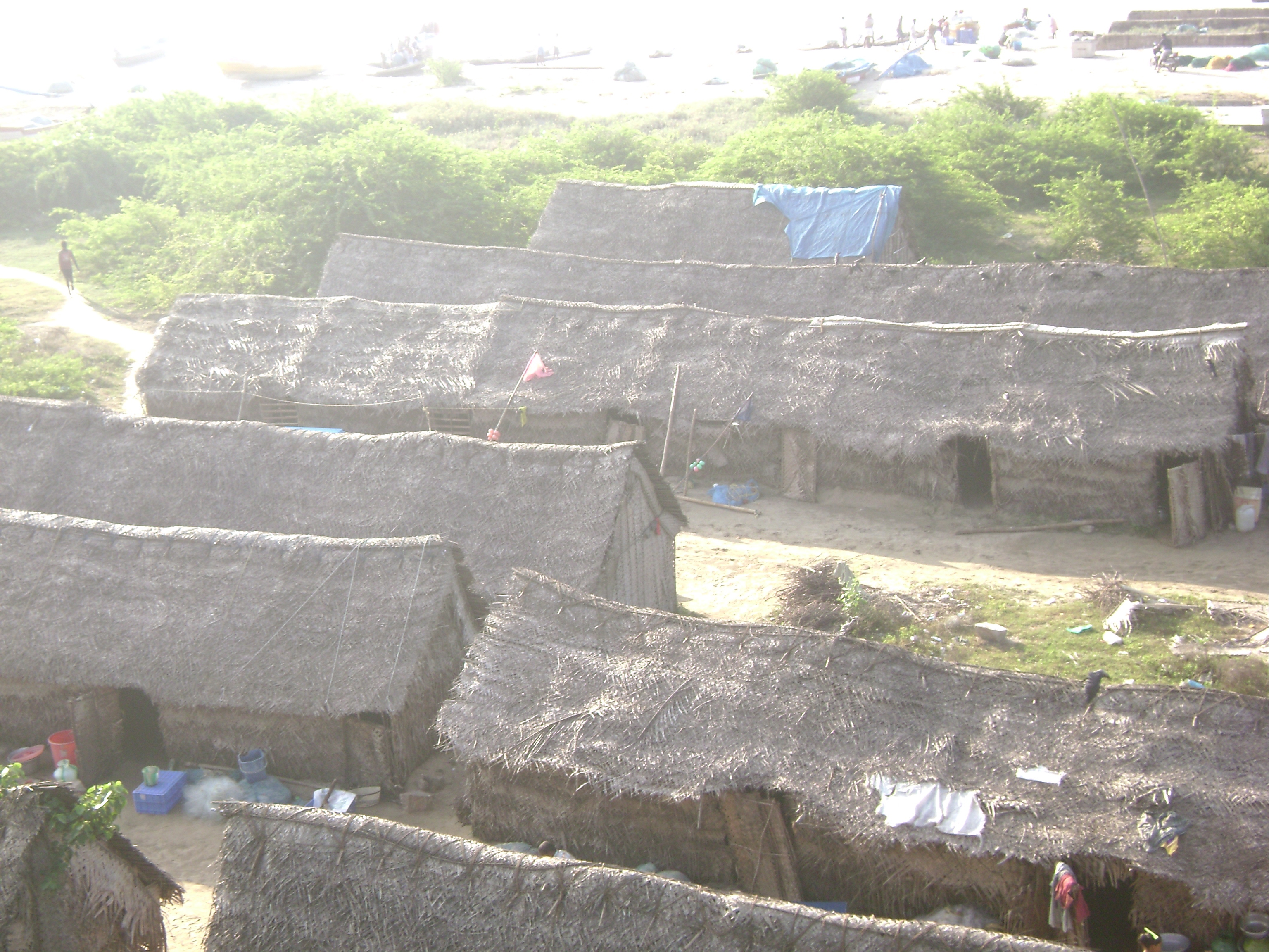 Point Calimere Wildlife and Bird Sanctuary, Adivasi Colony, a community of Ambalakars living in huts of mud, coconut fronds and palmyrah leaves on the edge of Kodaikarai village.